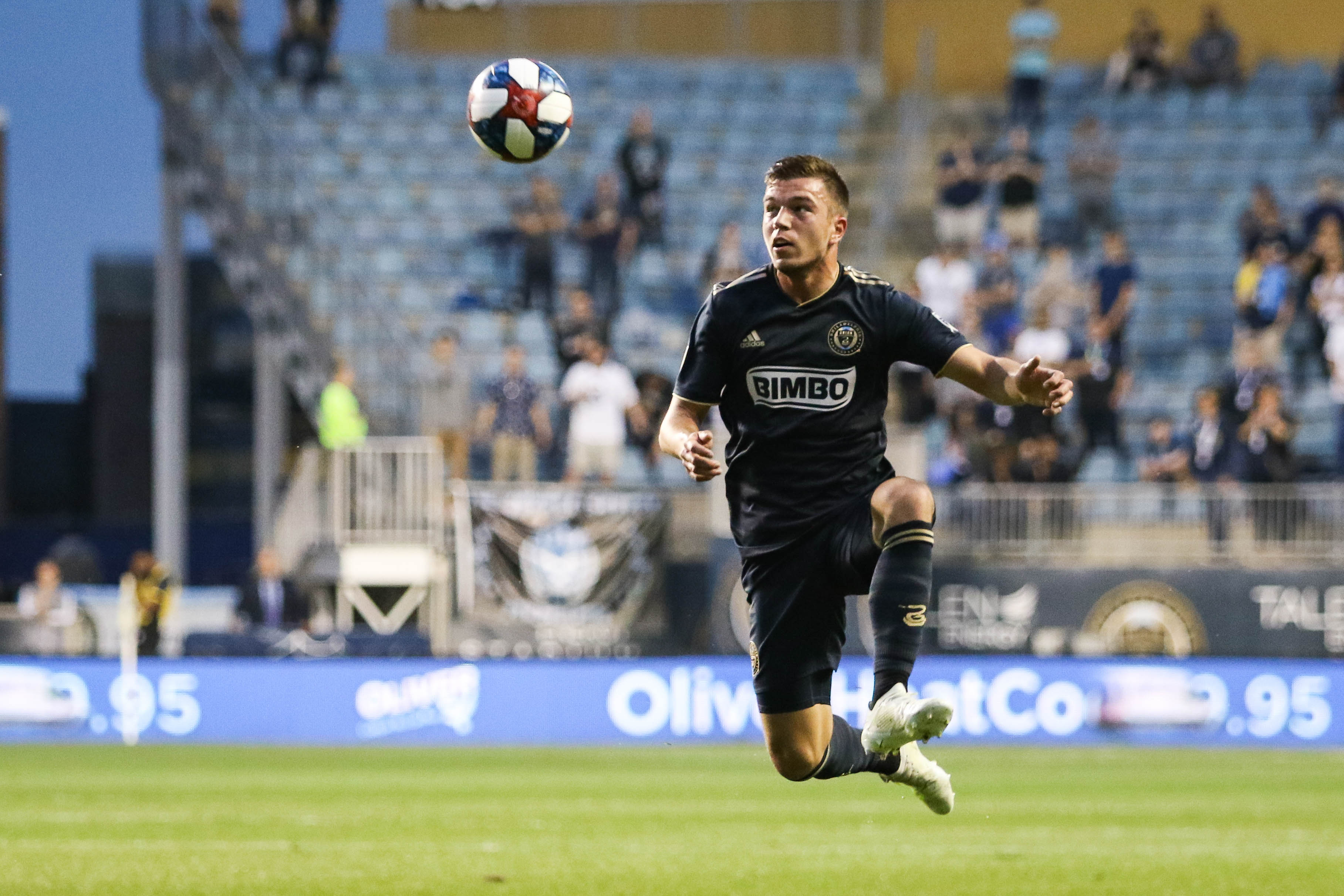 Kai Wagner playing with Philadelphia Union.